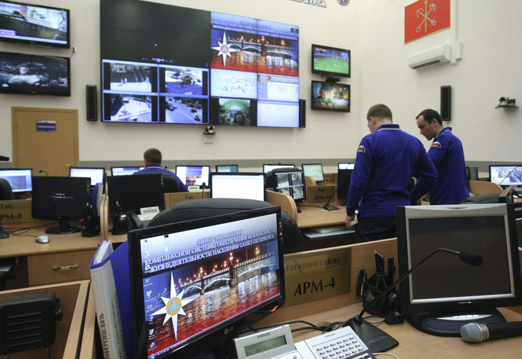 “Russia's first Comprehensive Security System Center opens in St Petersburg”. Russia's first Comprehensive Security System Center set up by the Civil Defense Ministry, Interior Ministry and the Federal Security Service opened in St Petersburg